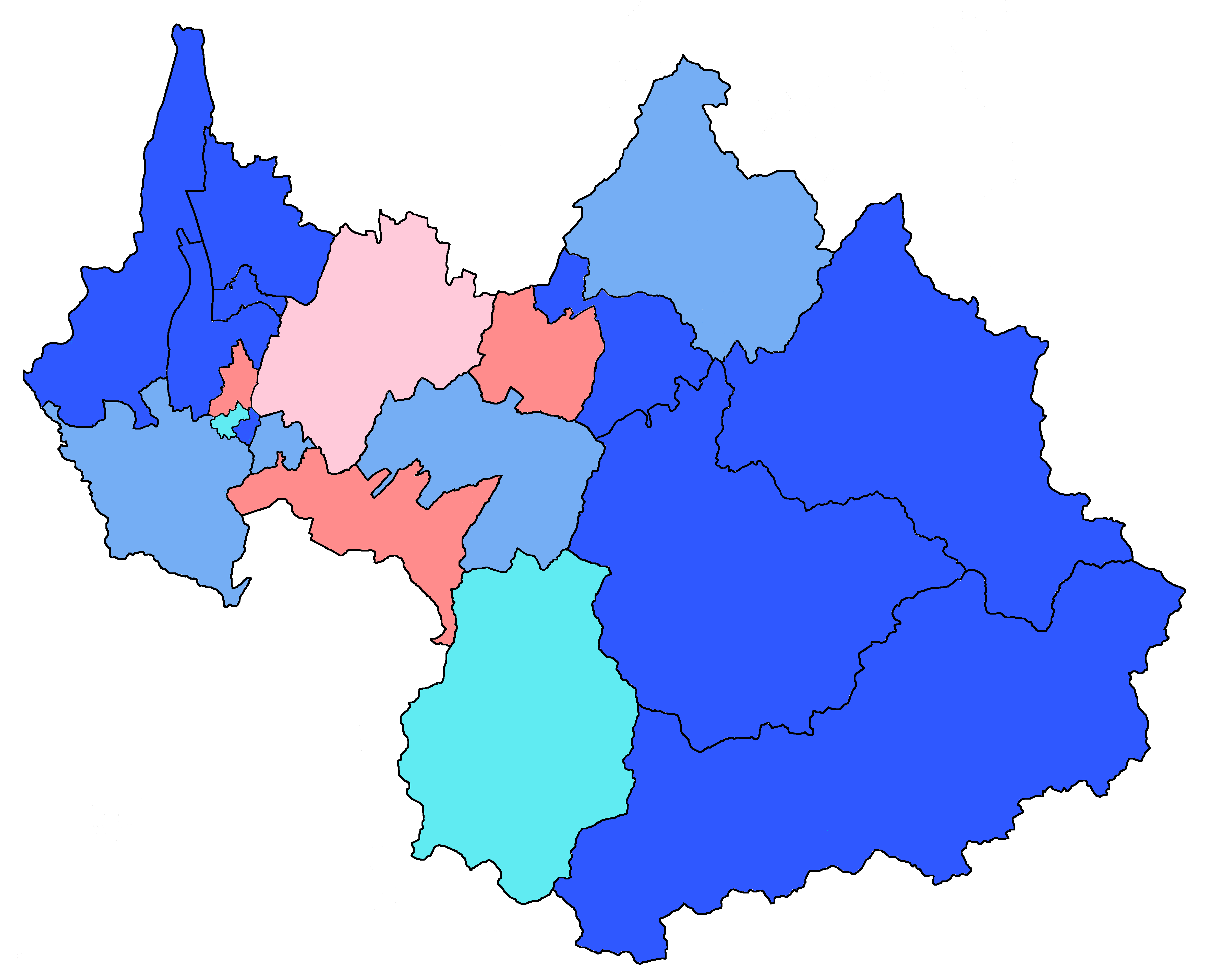 Map of the French department of Savoie and its 19 'cantons' according to the political sides which have won the departmental elections of March 2015.